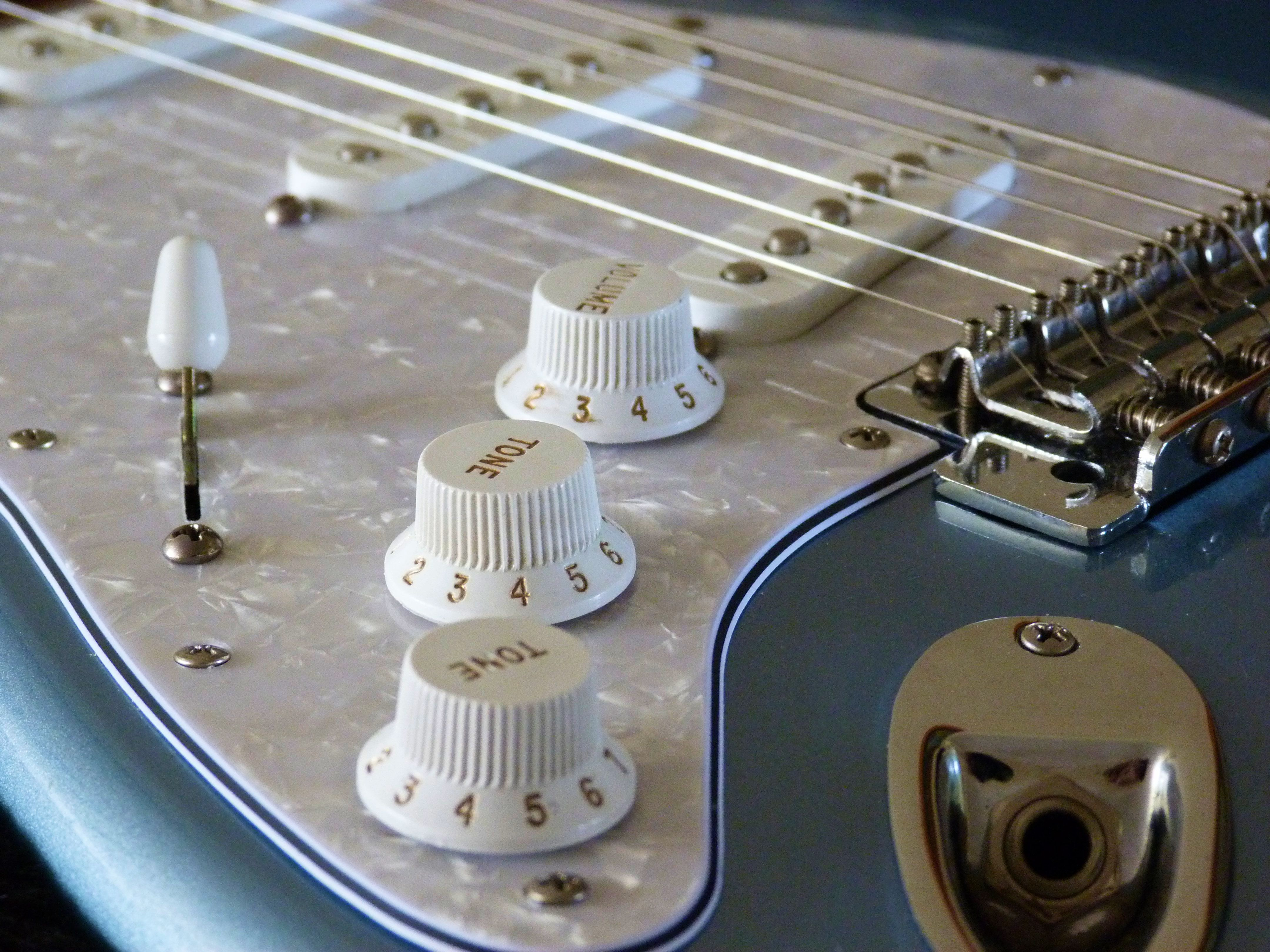 Fender Stratocaster Controls An icon of the 20th century, the Stratocaster guitar was designed by Leo Fender in California in the early 1950s. Nearly 60 years on, nobody has improved upon its design and controls. PS Leo Fender wasn't even a guitar player!